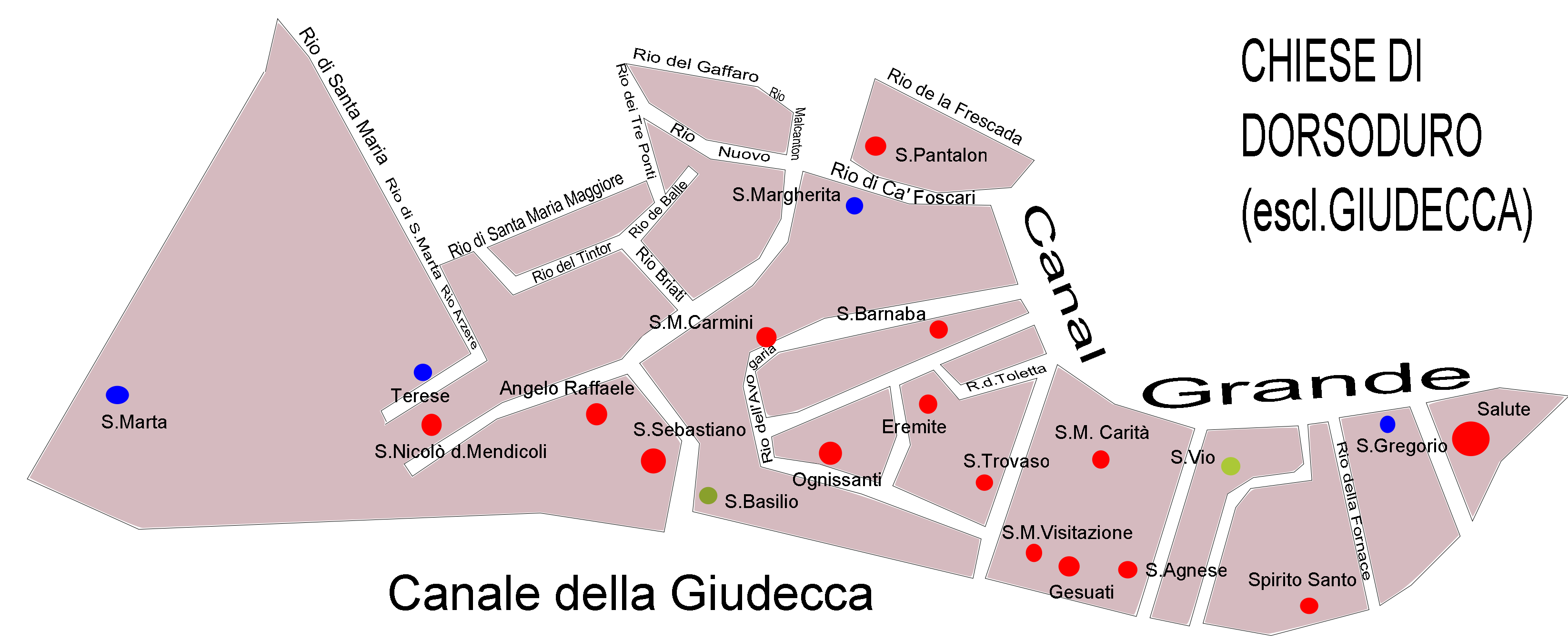 Churches of Dorsoduro